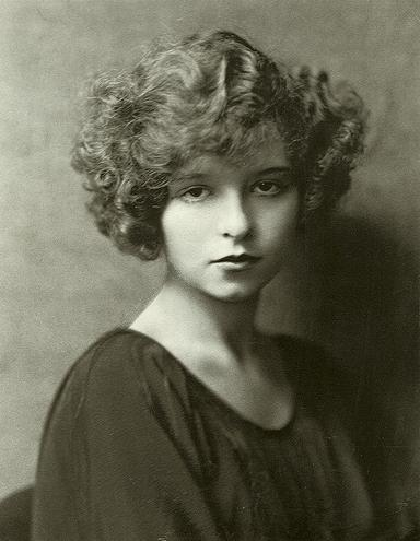 Clara Bow at 16. This picture was taken when she won a movie magazine contest in 1921.